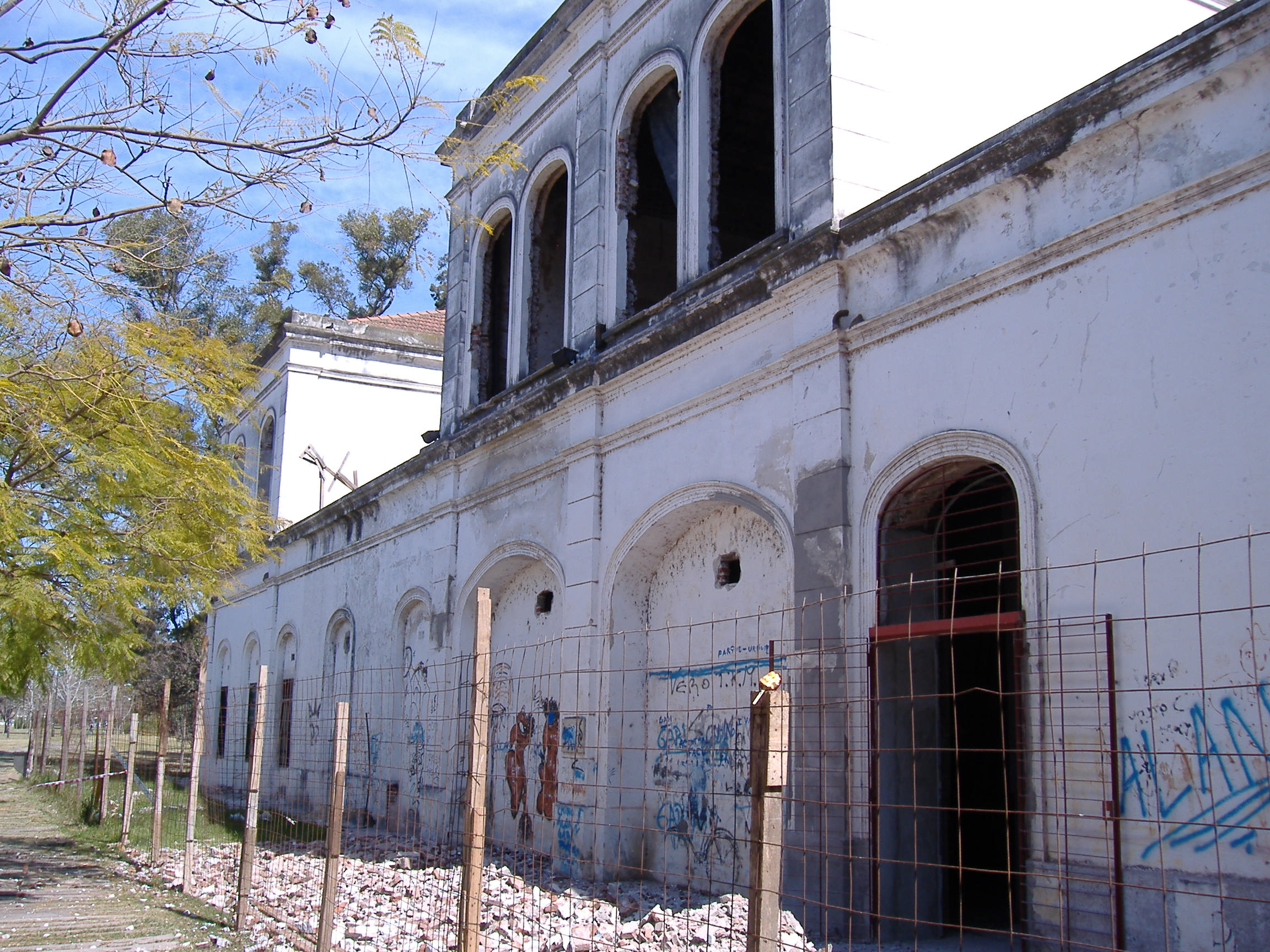 The abandoned Ferrocarril Oeste Santafesino train station in Rosario, Argentina, located within the Parque Urquiza.